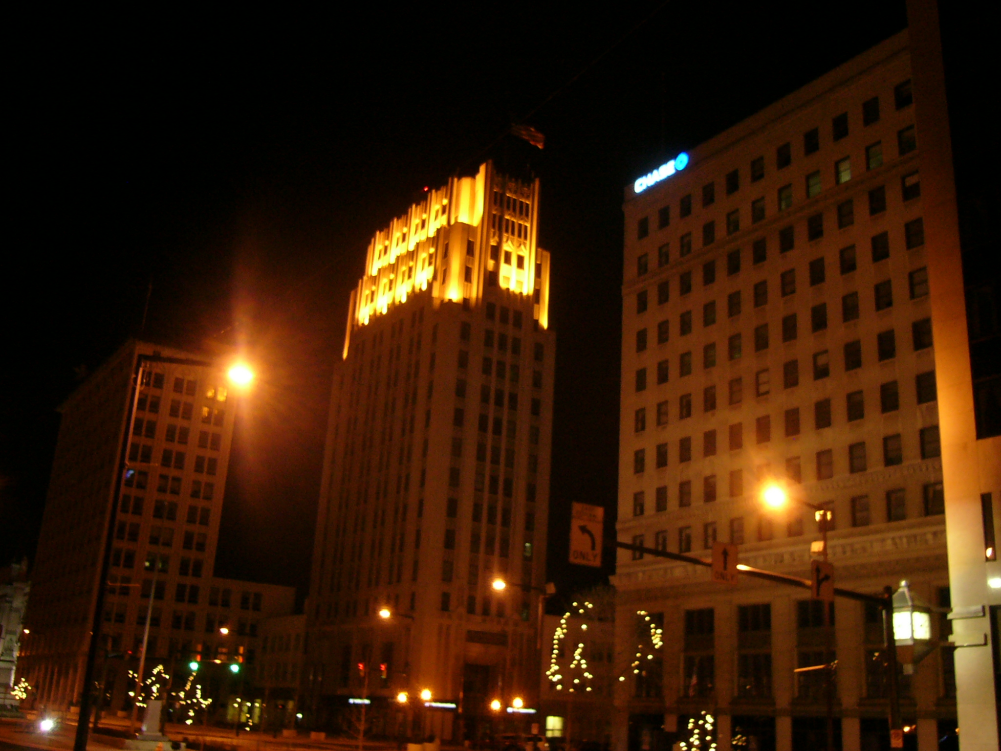 Buildings in Youngstown, Ohio